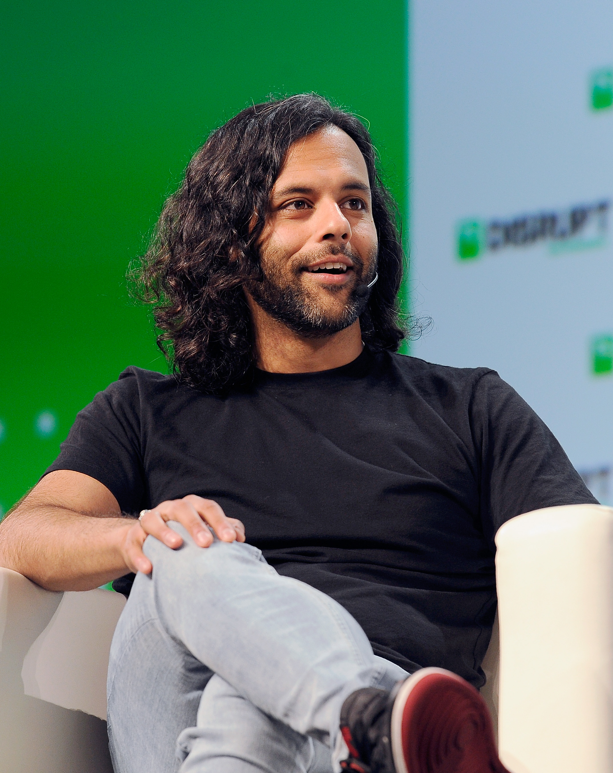 SAN FRANCISCO, CA - SEPTEMBER 06: Robinhood Co-Founder and Co-CEO Baiju Bhatt speaks onstage during Day 2 of TechCrunch Disrupt SF 2018 at Moscone Center on September 6, 2018 in San Francisco, California. (Photo by Steve Jennings/Getty Images for TechCrunch)